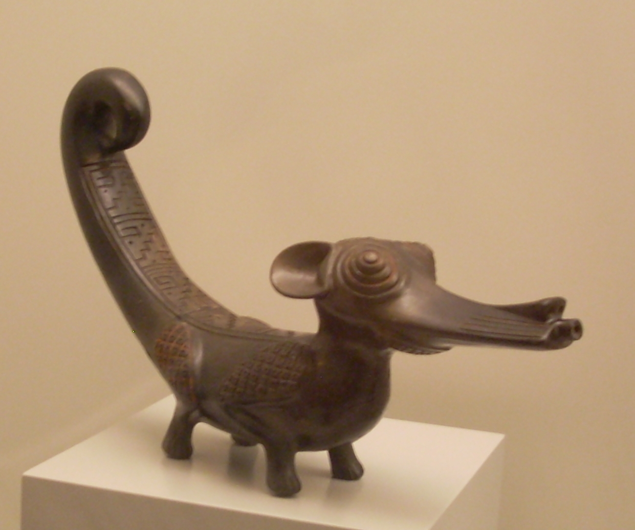 Ceramic Inca animal (supposedly a "caiman") from Acomayo, Cuzco department, Peru. Late Horizon, 1400-1532 AD. Item 08570 in the Museum of the Americas, Madrid. Note the ears and snout, which identify it as a mammal, rather than a reptile.